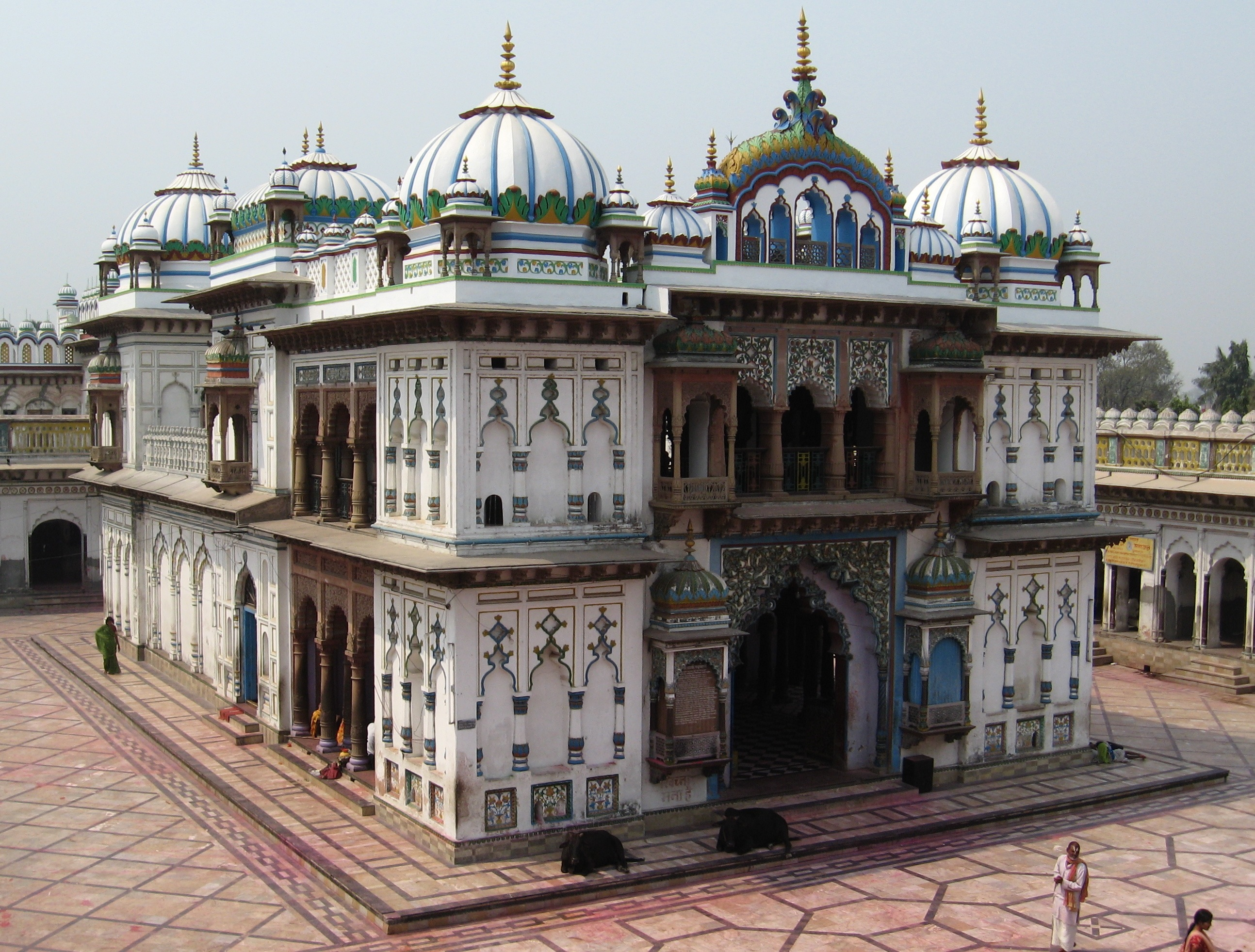 Janakpur, Nepal, Janaki Mandir.